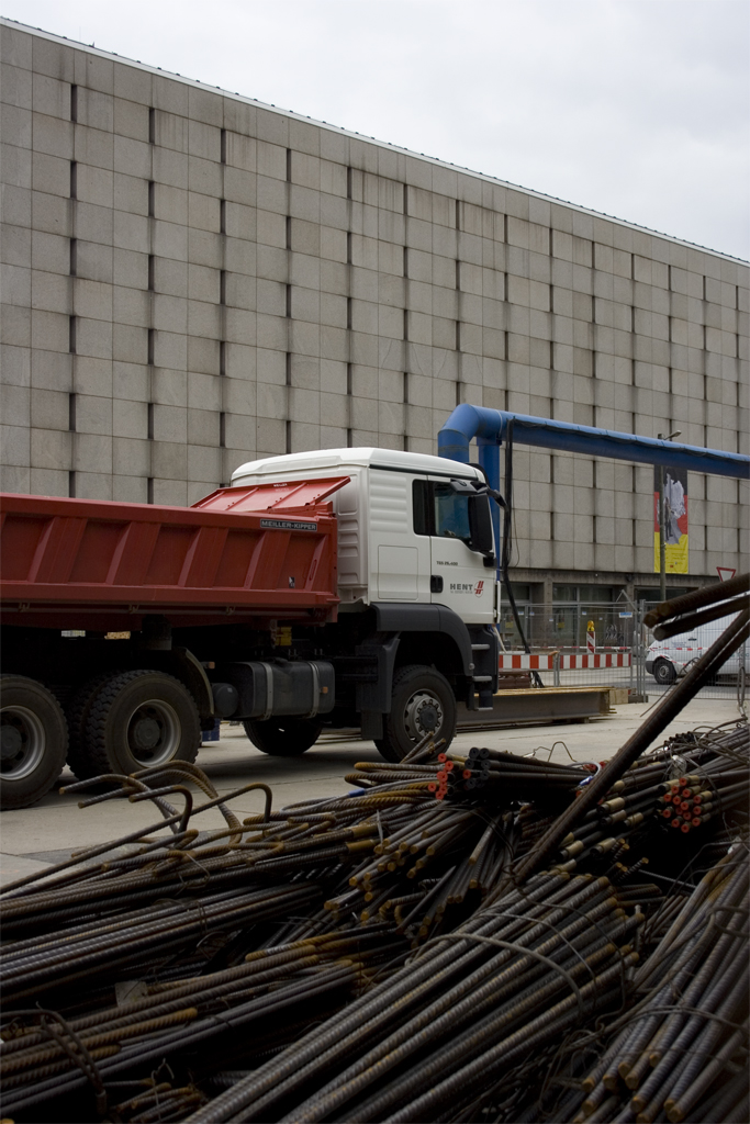 Former Building of the Historical Archive of Cologne